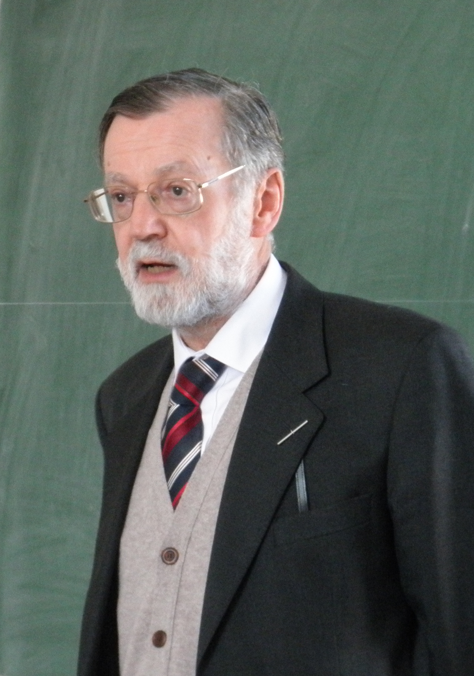 Photo of British philosopher Ralph C. S. Walker in 2012.